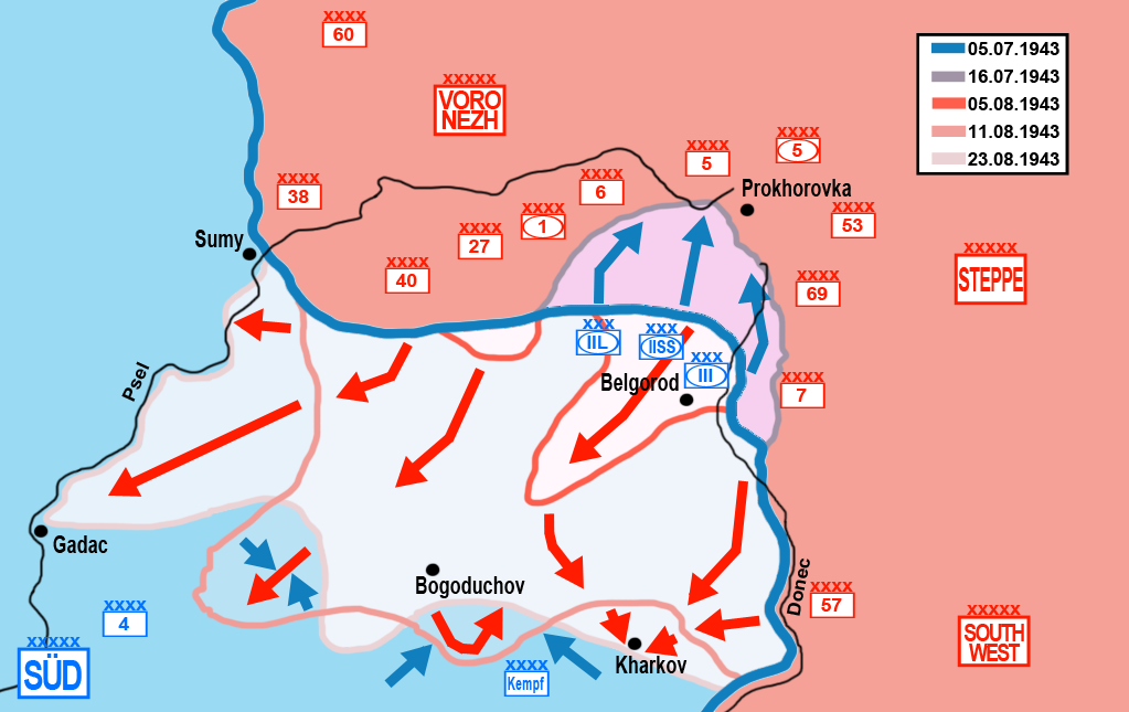 Southern sector of the Battle of Kursk. Operation Zitadelle and Operation Rumanyantcev